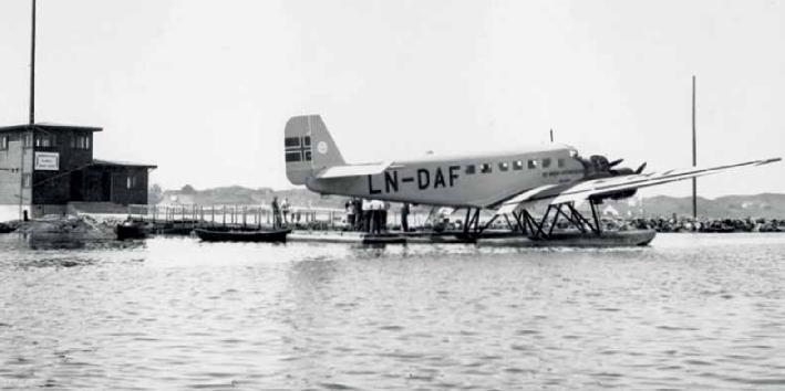 Norwegian Air Lines Junkes Ju 52 seaplane at Haugesund Airport, Storesundsskjær